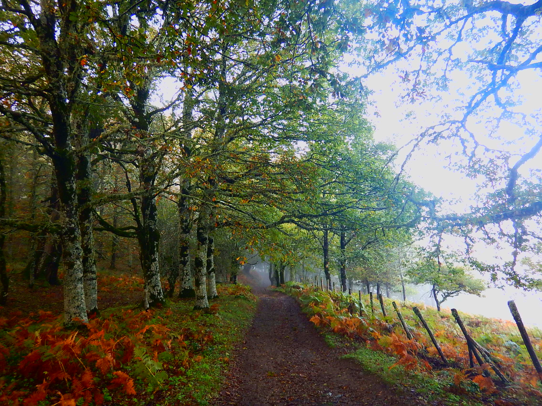 the enchanted wood of Malabotta is located in Sicily between the range of Peloritani and Nebrodi